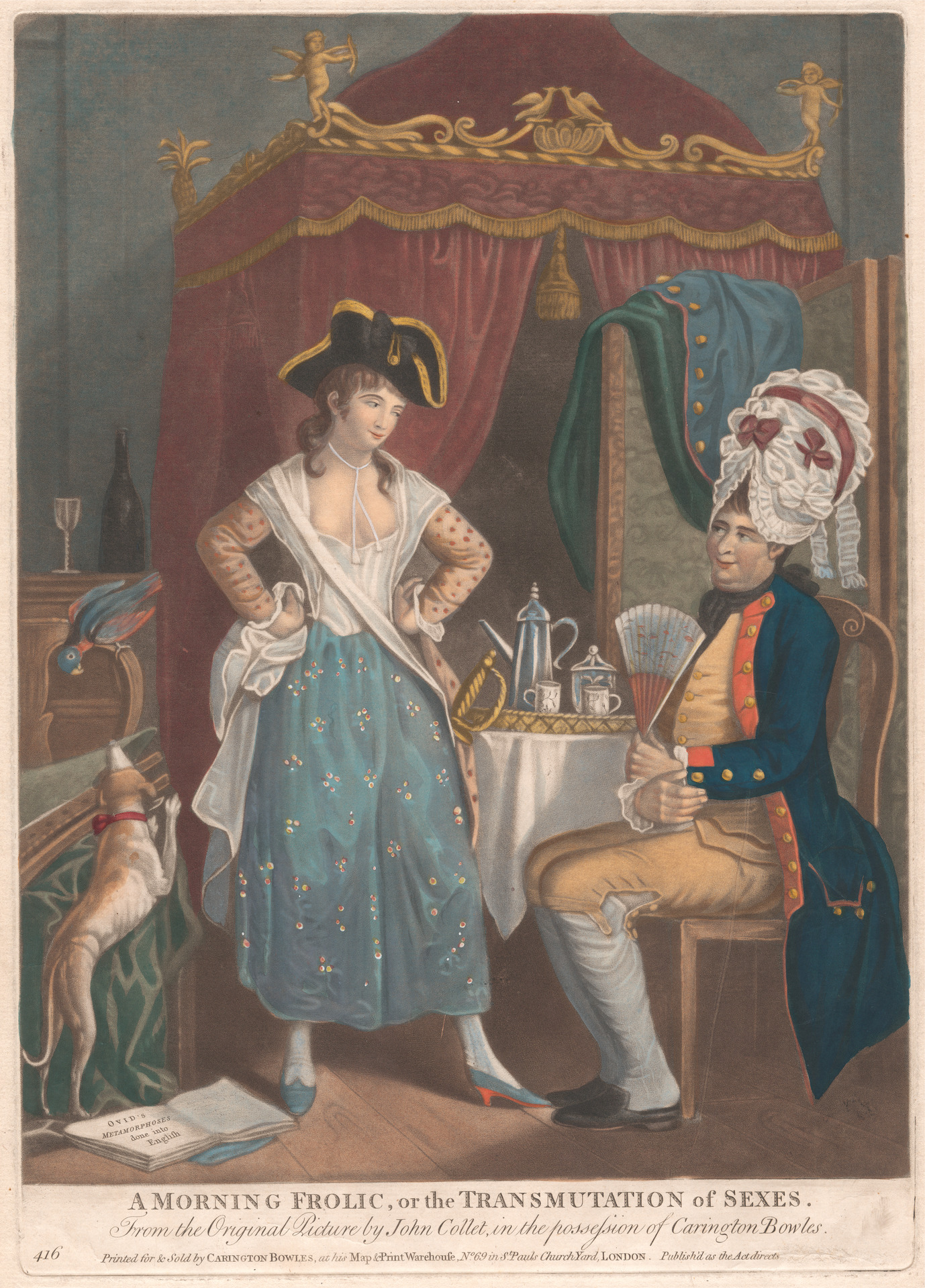 A man and a woman in deshabille swapping clothes.